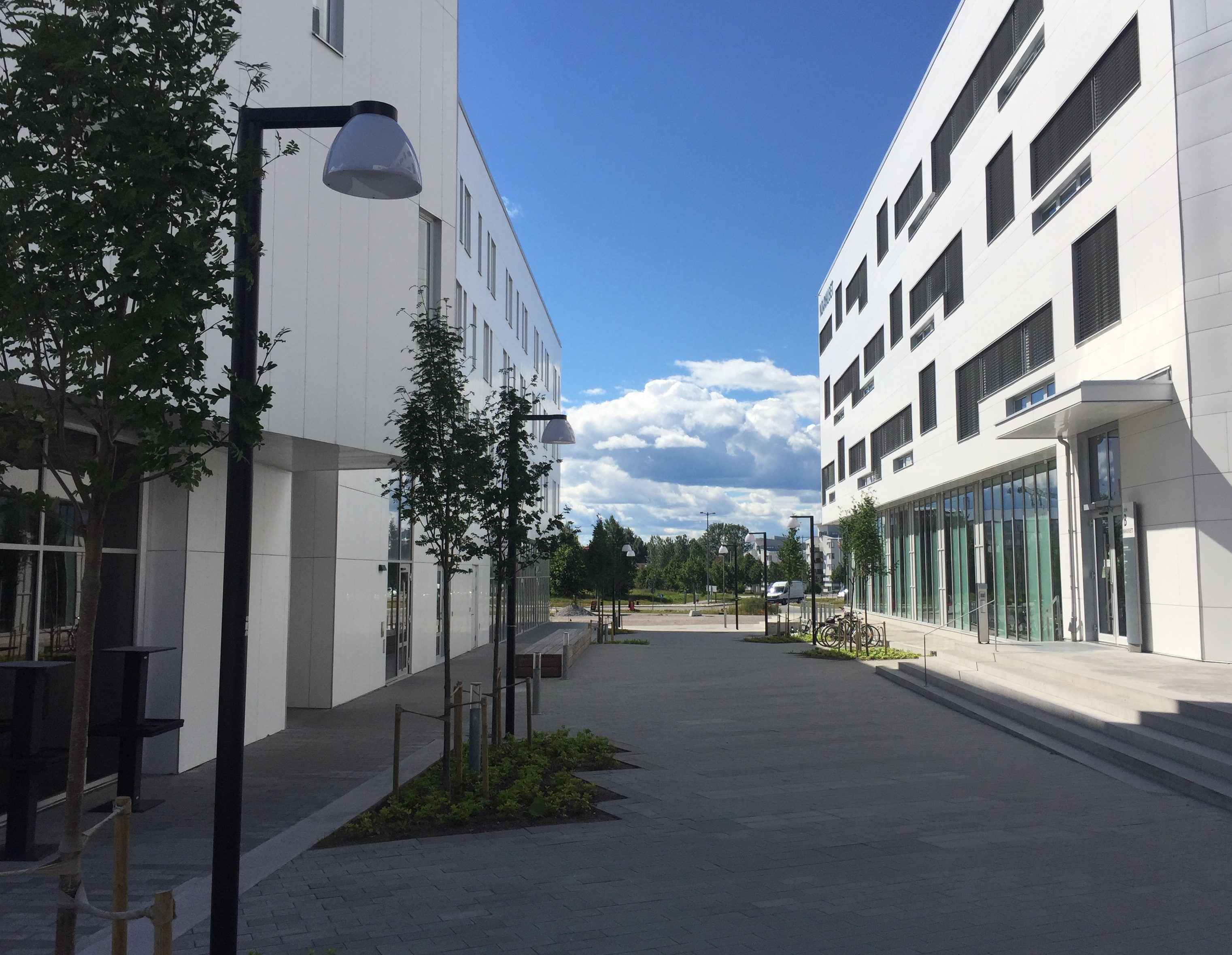 Street at Örebro University